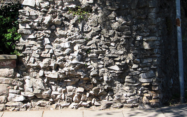 Chepstow - Portwall breach closeup showing the rubble construction See 525199